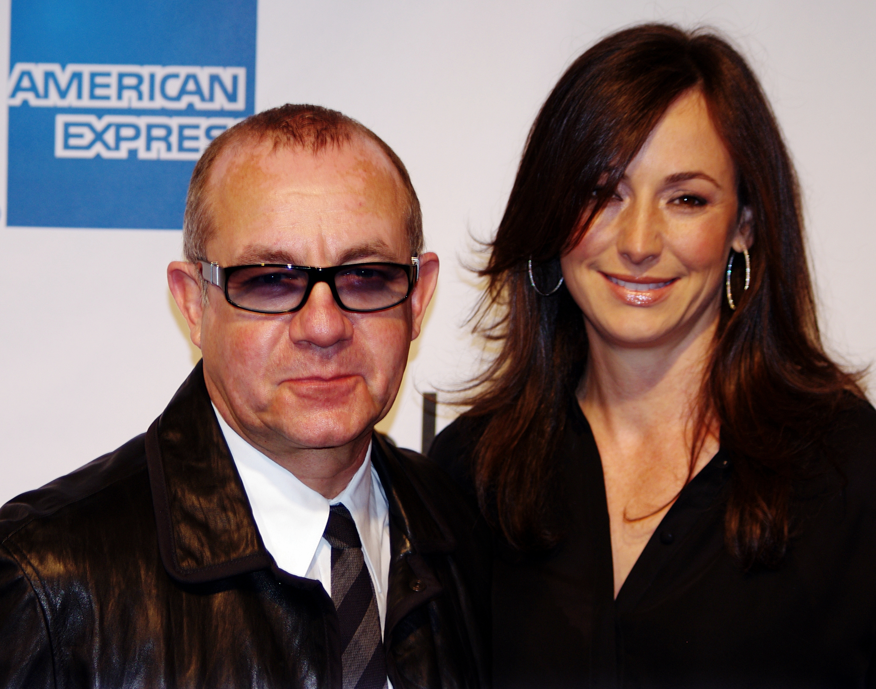 Bernie Taupin with his wife Heather Lynn Hodgins Kidd attending the premiere of The Union at the Tribeca Film Festival.